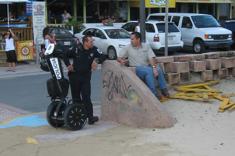 Carolina Beach, San Juan, Puerto Rico